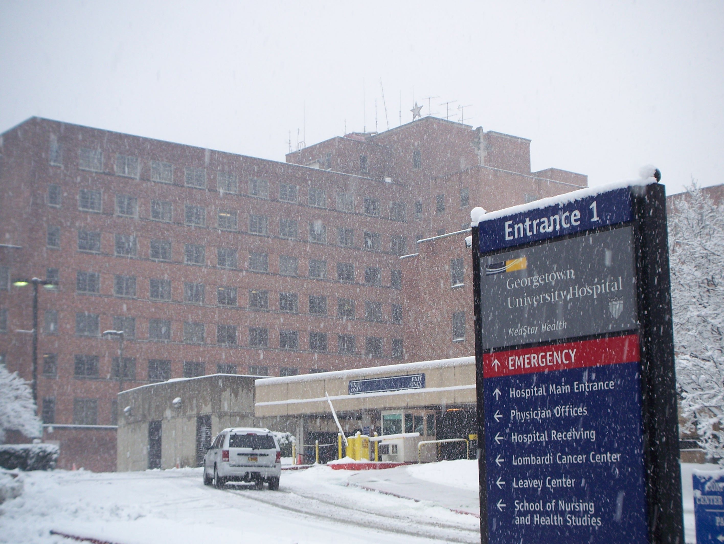 Georgetown University Hospital located in Washington, DC. Photo taken February 2007.